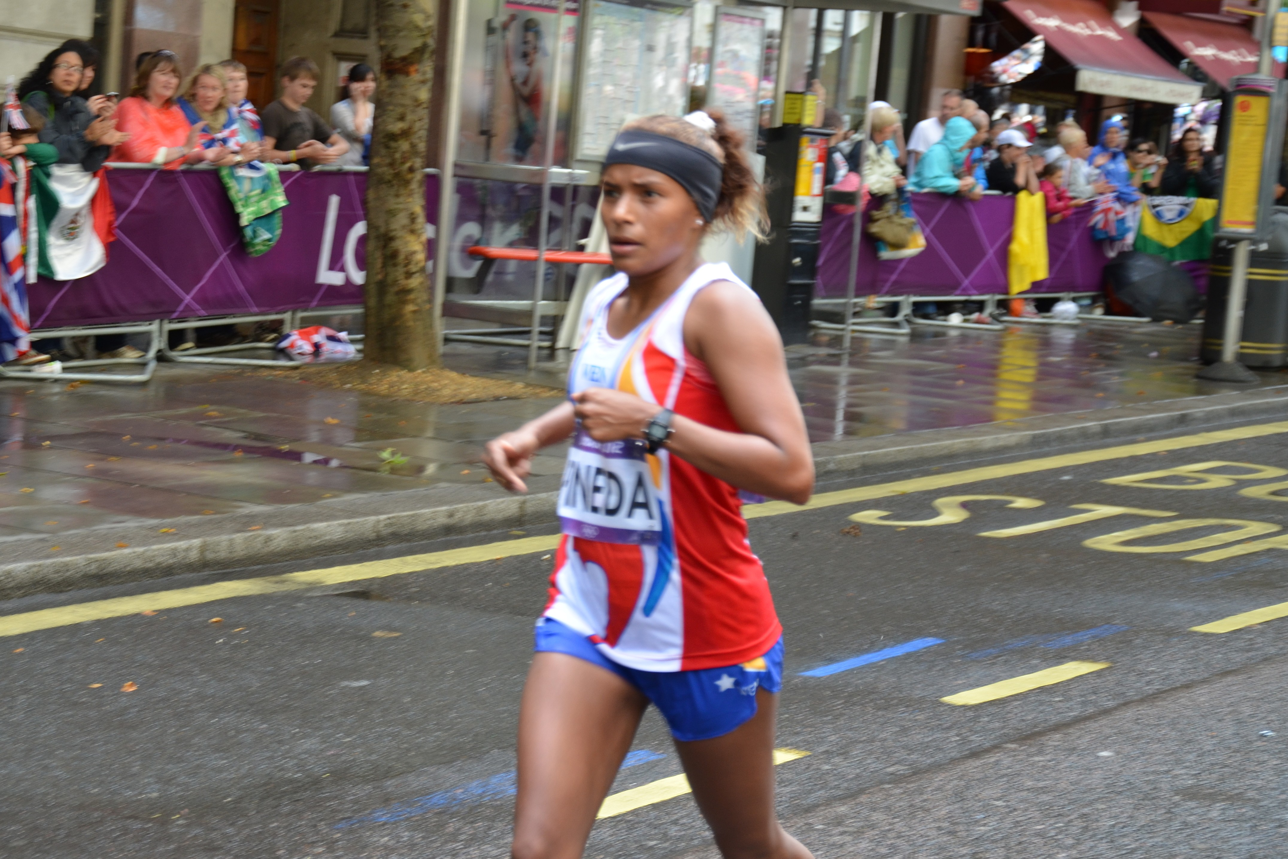 Yolimar Pineda (Venezuela) in the marathon (w) at the Olympic Games 2012